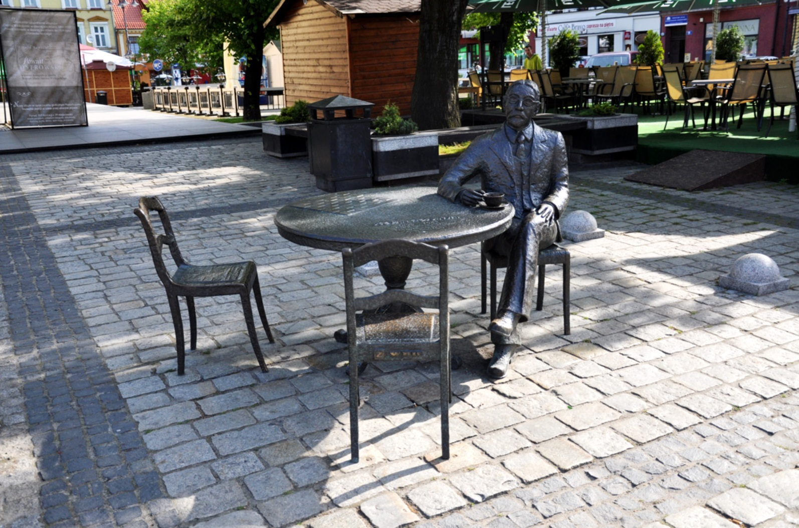 Ostrów Wielkopolski, Poland